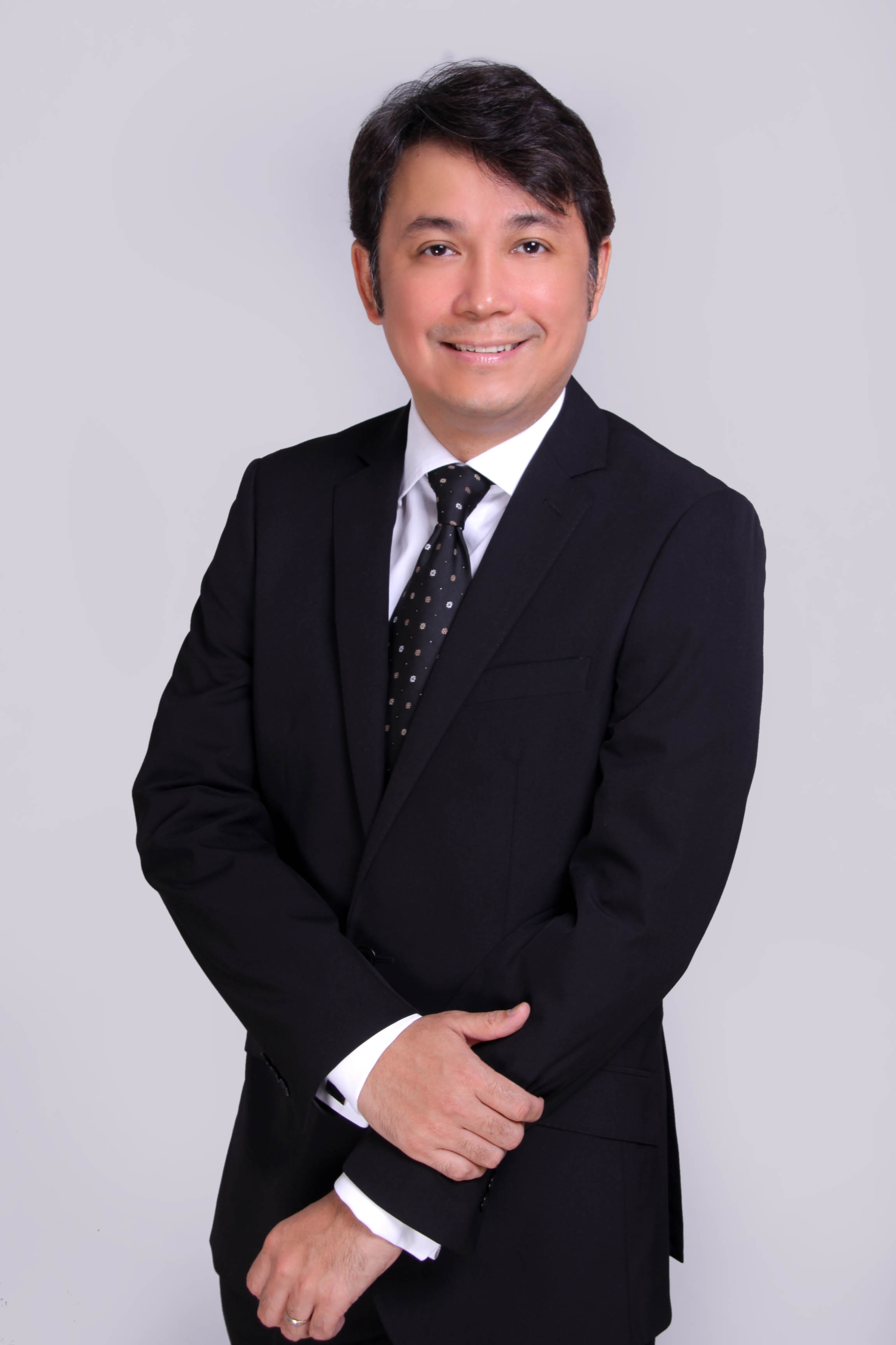 Profile image of Atty. Tranquil Gervacio Salvador, III